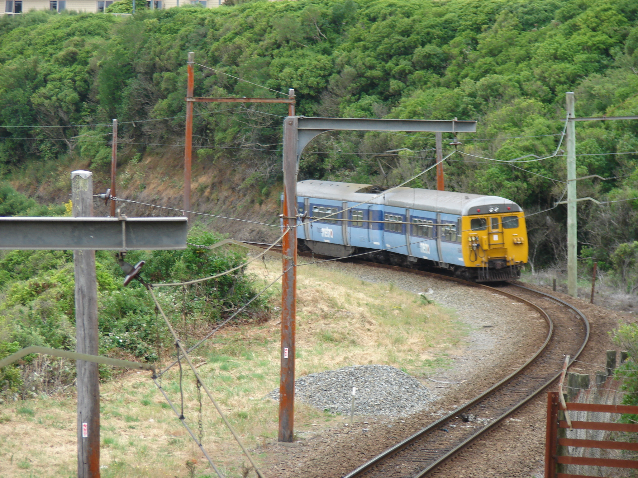 A southbound DM class EMU just south of Raroa Railway Station on the Johnsonville Branch. Raroa, Wellington, New Zealand